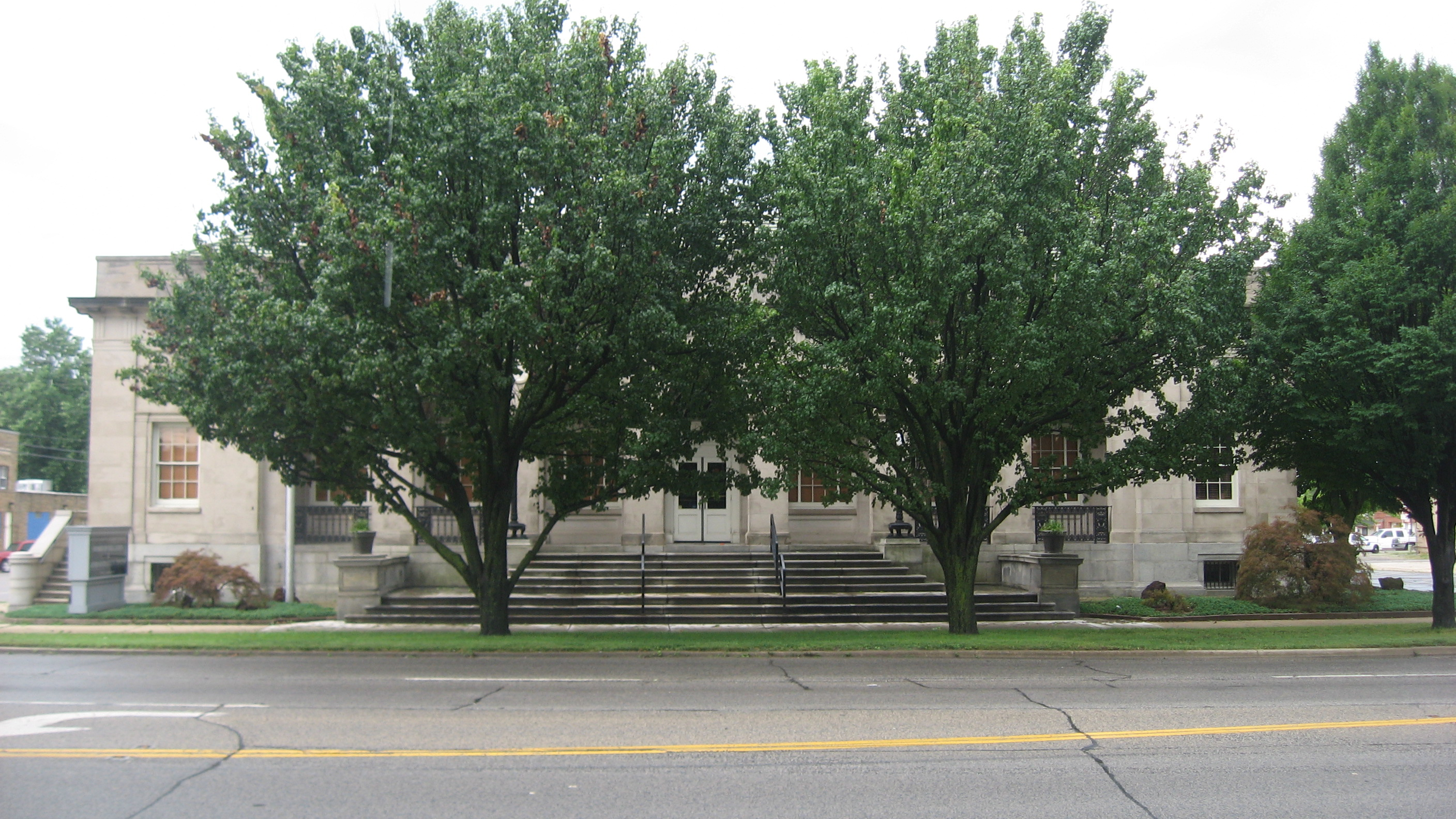 Front of the former post office in Mattoon, Illinois, United States, located at 1701 Charleston Avenue (Illinois Route 16). Built in 1913, it is listed on the National Register of Historic Places.